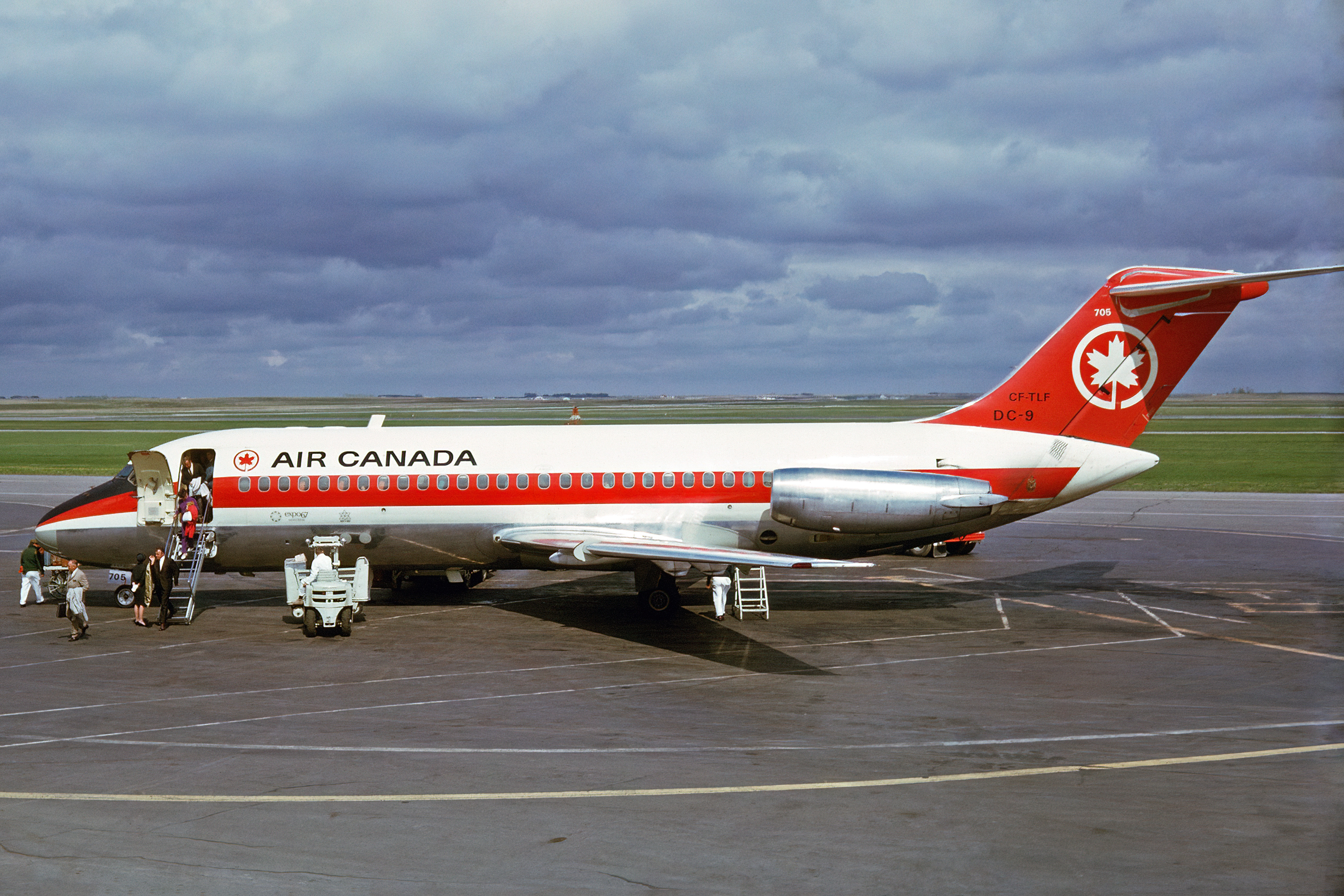 McDonnell Douglas DC-9-14, a twin-engine, narrow-body jet airliner, in Air Canada livery at Calgary International Airport. Registration CF-TLF, delivered to Air Canada in 1966. It was sold to Continental Airlines in 1982 and re-registered as N626TX. Operating as Continental Airlines Flight 1713 on November 15, 1987, the aircraft crashed in Denver, Colorado, and was destroyed.